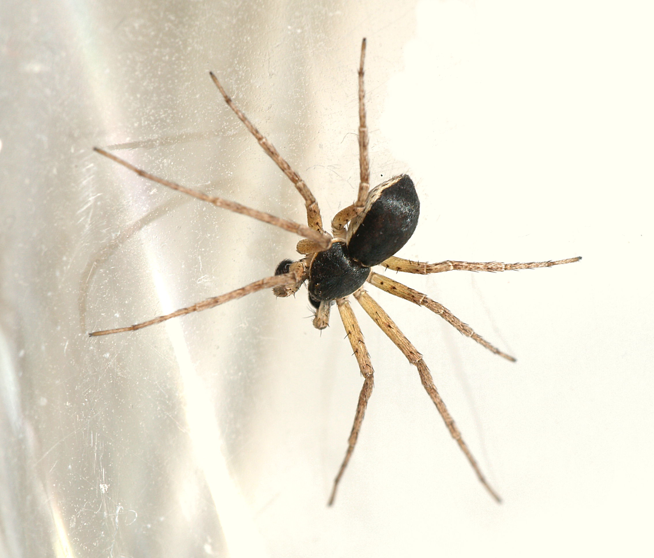 male Philodromus aureolus from Cologne, Germany. Adult, has molted about four days ago. Body length is about 5 mm.